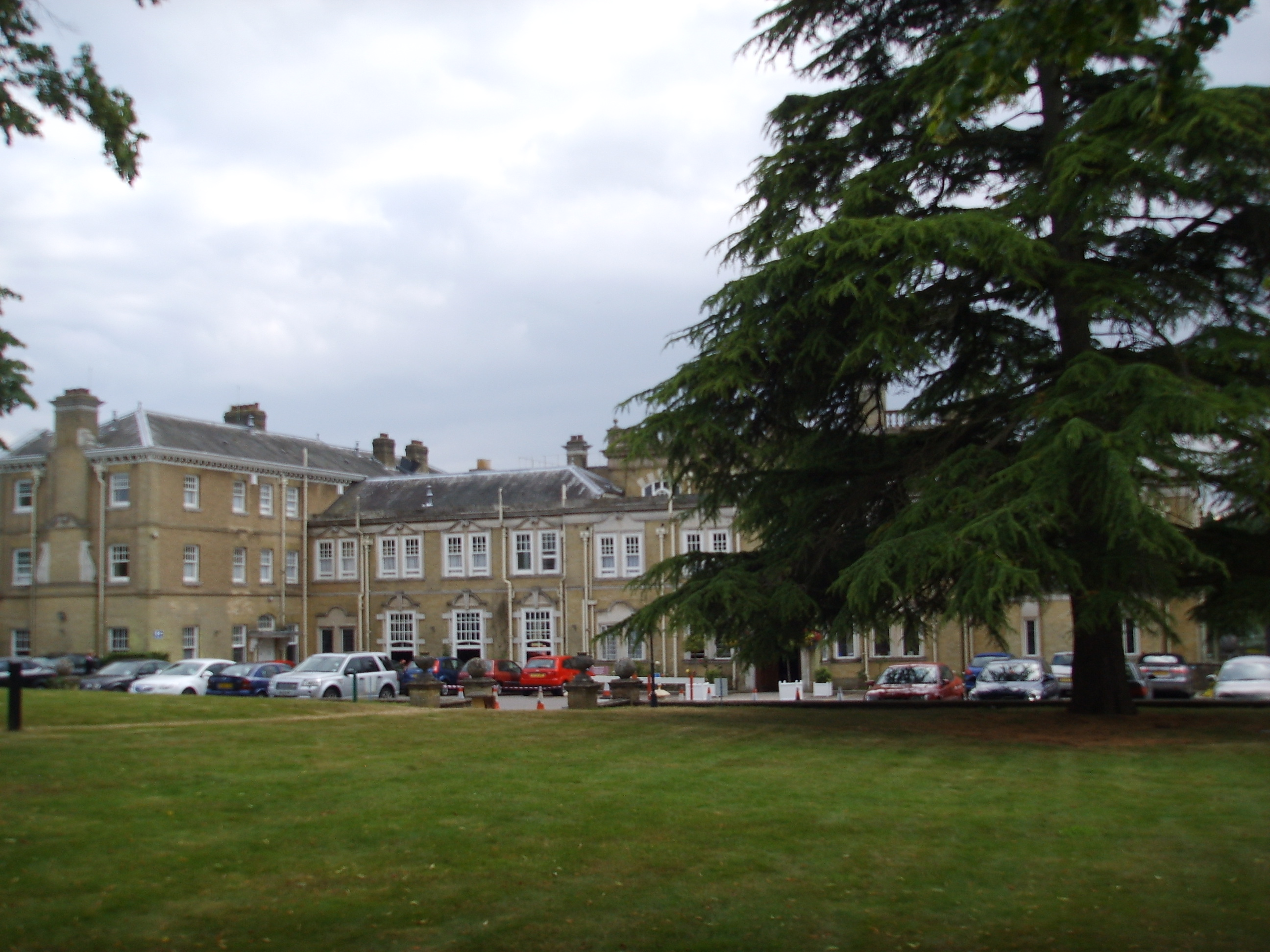 Front of Chilworth Manor, Southampton